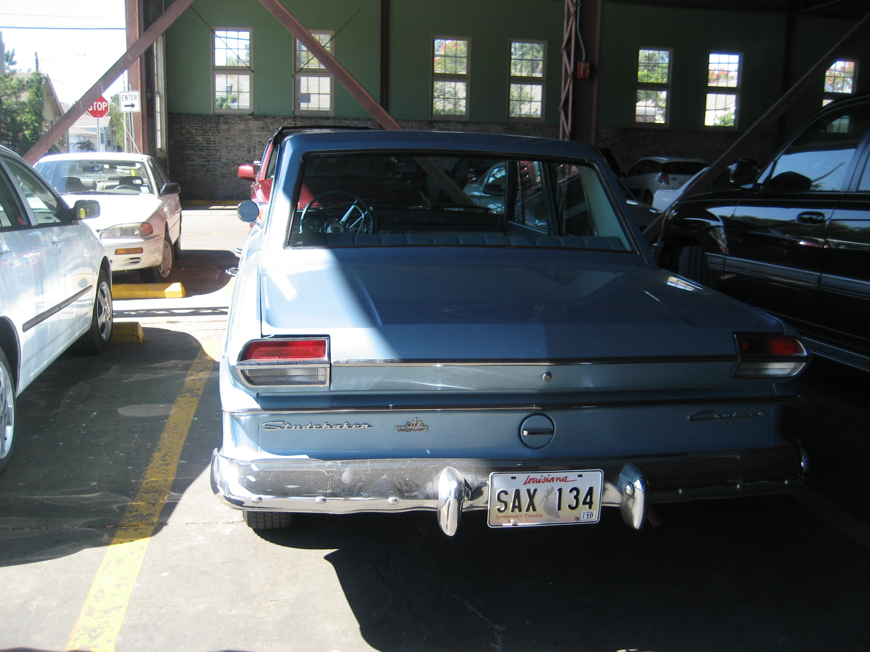 1960s Studebaker seen parked in the Arabella Station building, New Orleans